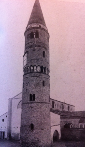 Bell tower of Caorle Cathedral (Venice) at the beginning of the XX century.